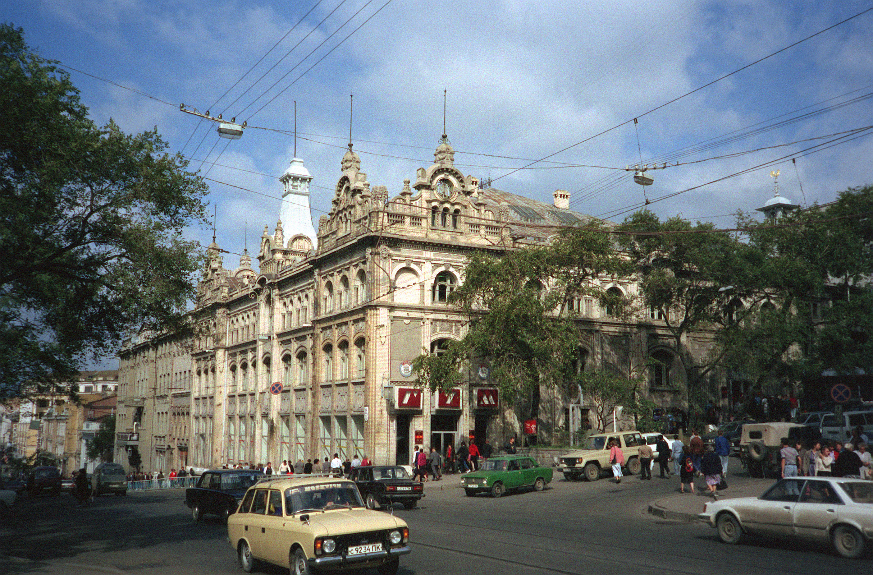 A view of the GUM (former Kunst & Albers) Department Store in Vladivostok, built in 1910 after a project by Georg Junghändel.